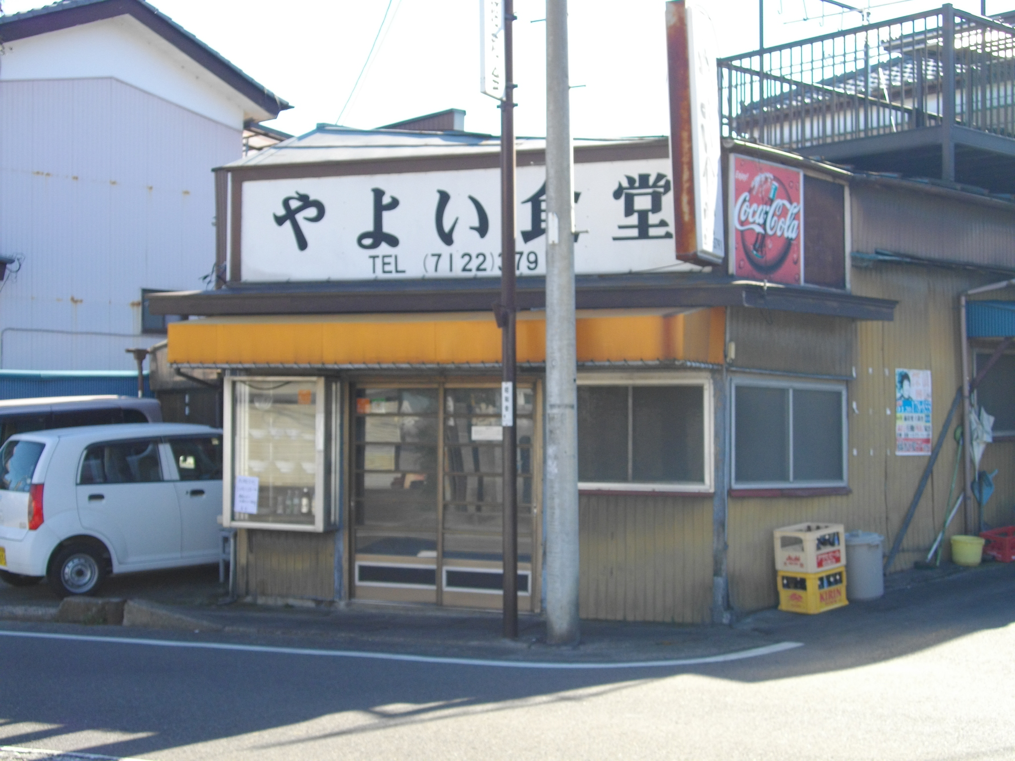 Yayoi Shokudo